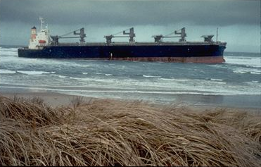 Cropped version of